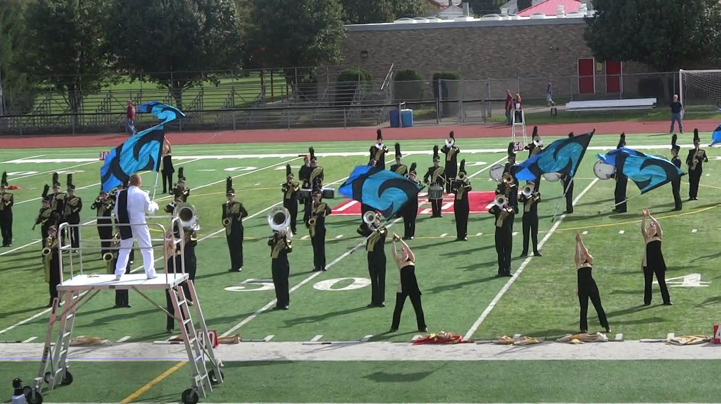 field show in Hornell, NY